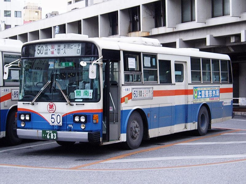 Ryukyu Bus Kotsu